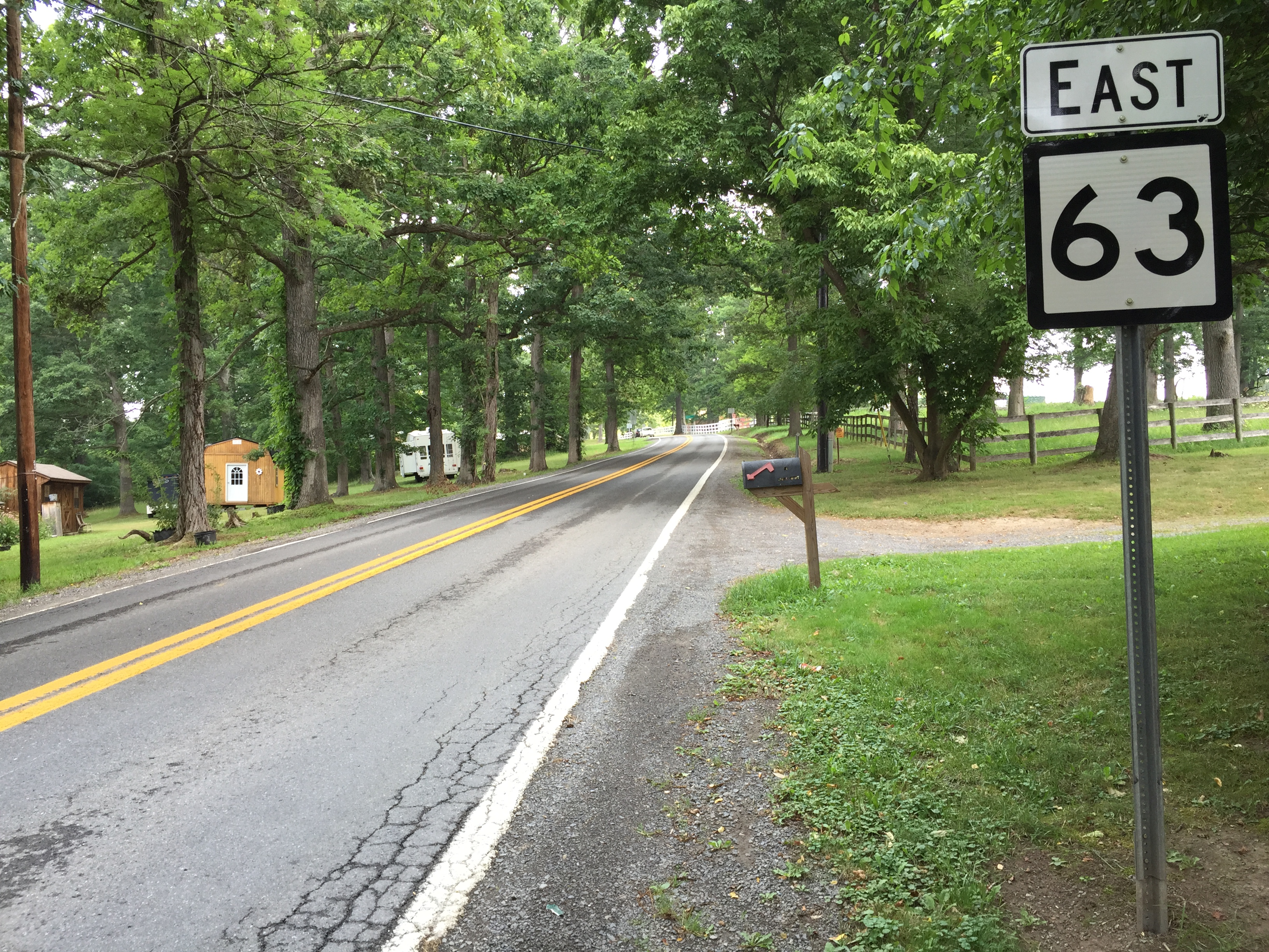 View east along West Virginia State Route 63 (Monroe Draft) at U.S. Route 219 (Seneca Trail) in Organ Cave, Greenbrier County, West Virginia